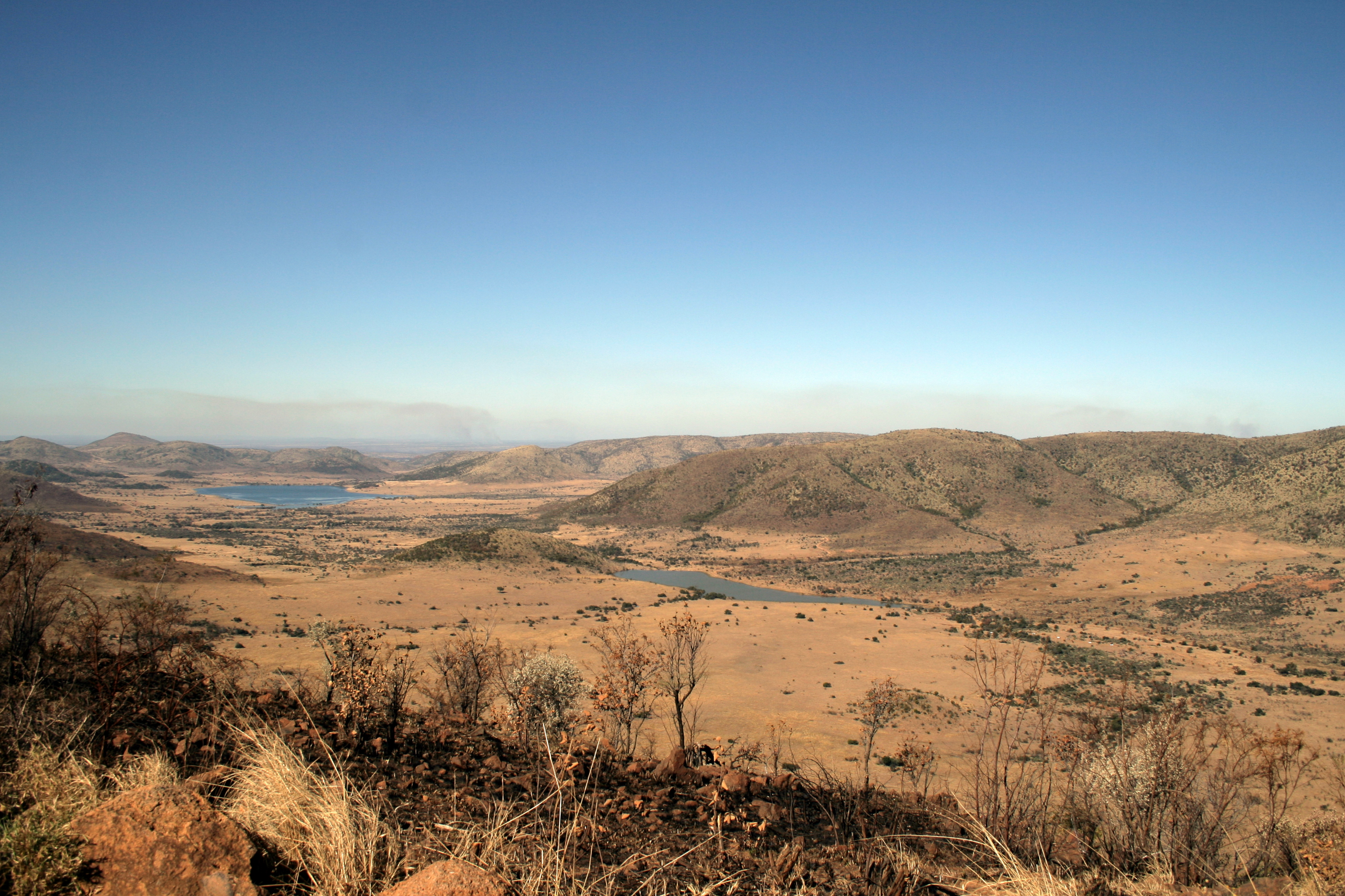 View (facing east-south-east) from Lenong lookout point over the Makorwane (foreground) and Mankwe (background) dams. Pilanesberg Game Reserve, South Africa